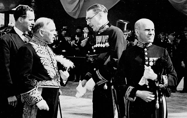 Rt. Hon. W.L. Mackenzie King and officials awaiting the arrival of King George VI and Queen Elizabeth. (L-R): Mr. Arnold Heeney, Rt. Hon. W.L. Mackenzie King, Sir A.S. Redfern, Dr. E.H. Coleman (Quebec City, Canada)